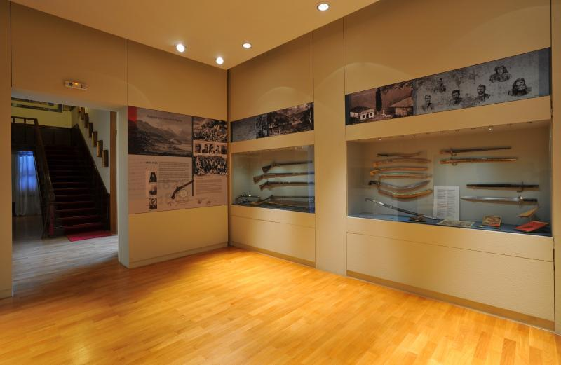 Hall A of the Museum, image from the Museum of the Macedonian Struggle, Thessaloniki, Central Macedonia, Greece